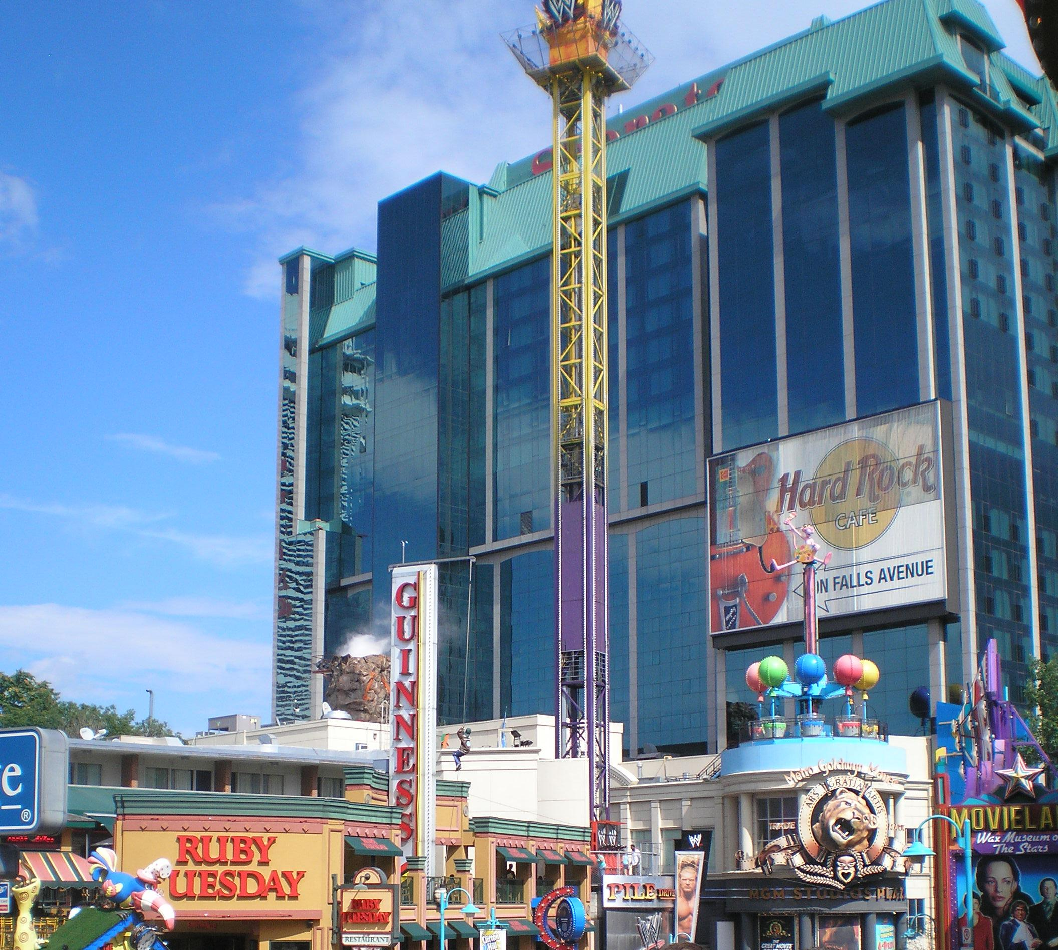 Clifton Hill, a street near Niagara Falls.